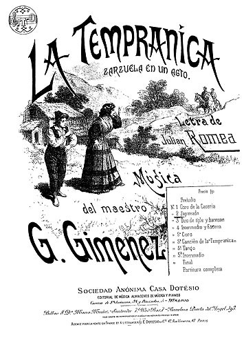 Homepage G. Gimenéz: La Tempranica